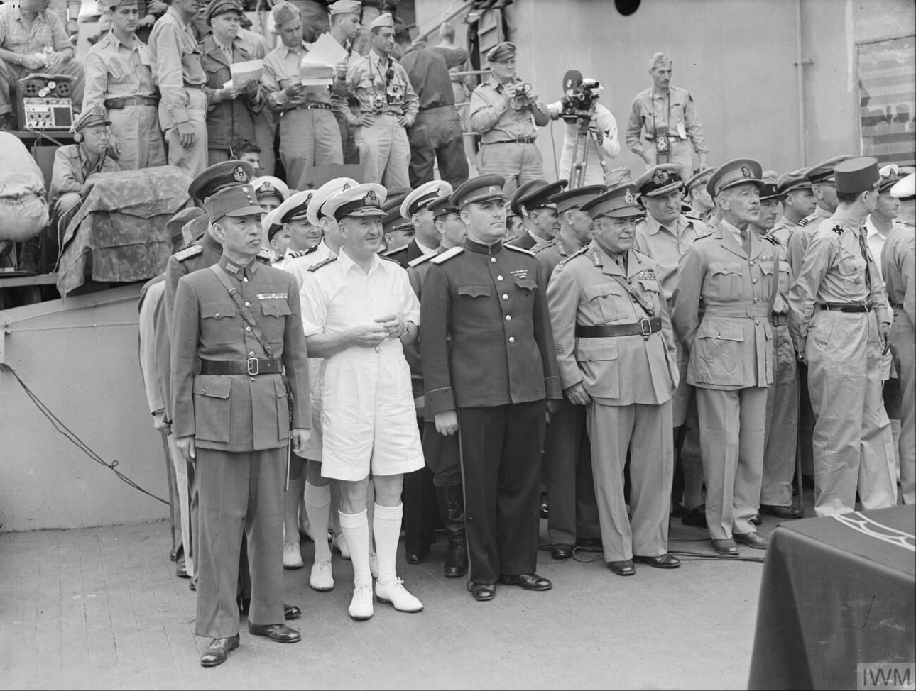 Japanese Surrender at Tokyo Bay, 2 September 1945 Representatives of the Allied powers wait to sign the Instrument of Surrender on board USS MISSOURI. From left to right: General Hsu-Yung-Chang (China), Admiral Sir Bruce Fraser (Great Britain), Lieutenant General Kusa Nickolsevitch Derevyenko (USSR), General Sir Thomas Blaney (Australia), Colonel L Moore Cosgrave (Canada) and General Le Clerc (Provisional Government of France).